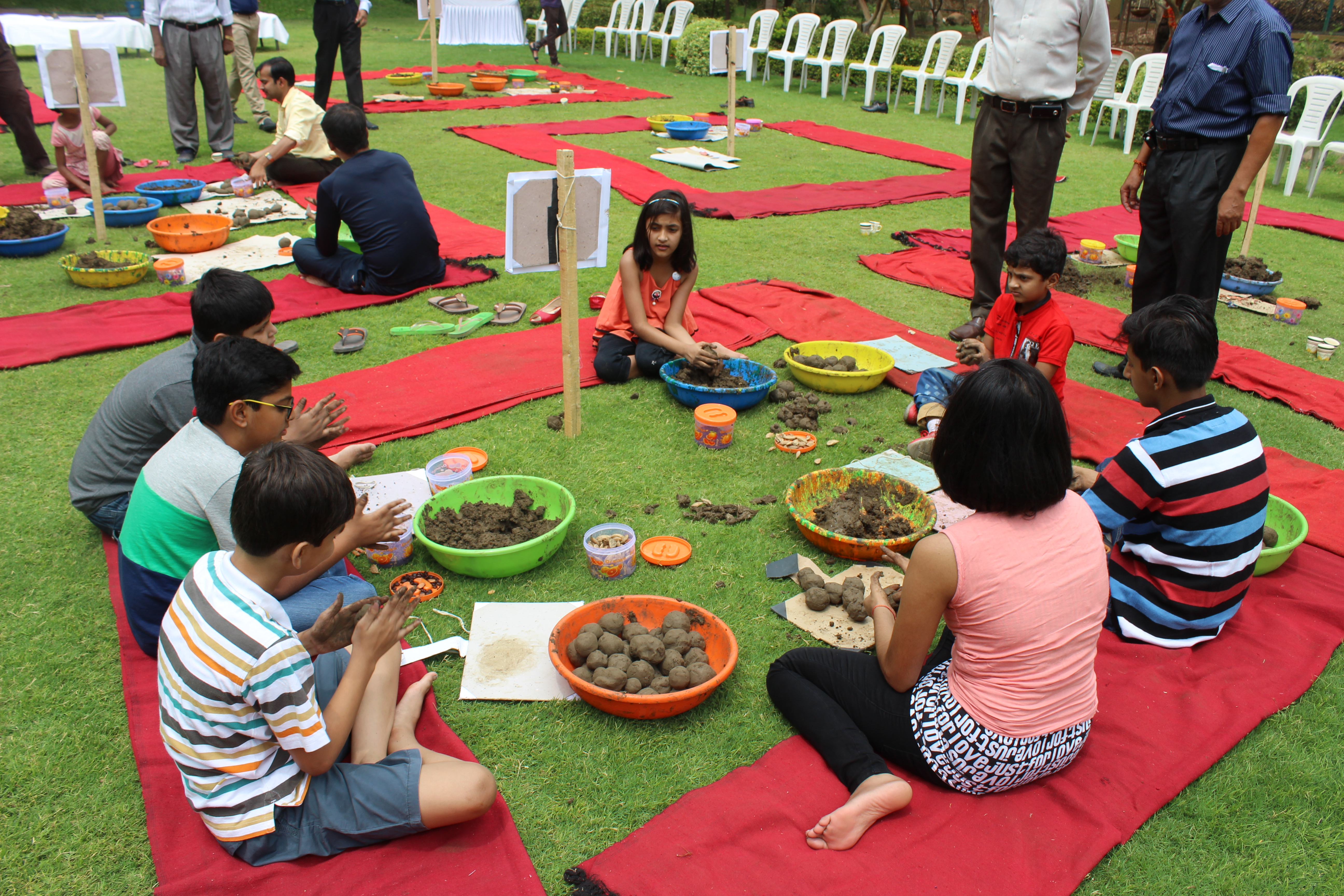 Activities for world environment day in Bhopal